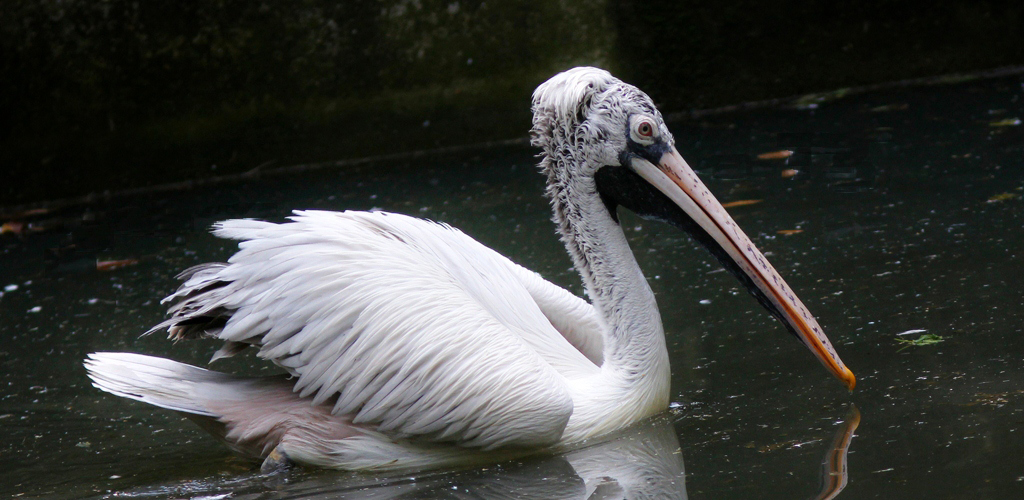 Also called the Grey Pelican. It is a bird of large inland and coastal waters, especially large lakes. At a distance they are difficult to differentiate from other pelicans in the region although it is smaller but at close range the spots on the upper mandible, the lack of bright colours and the greyer plumage are distinctive.